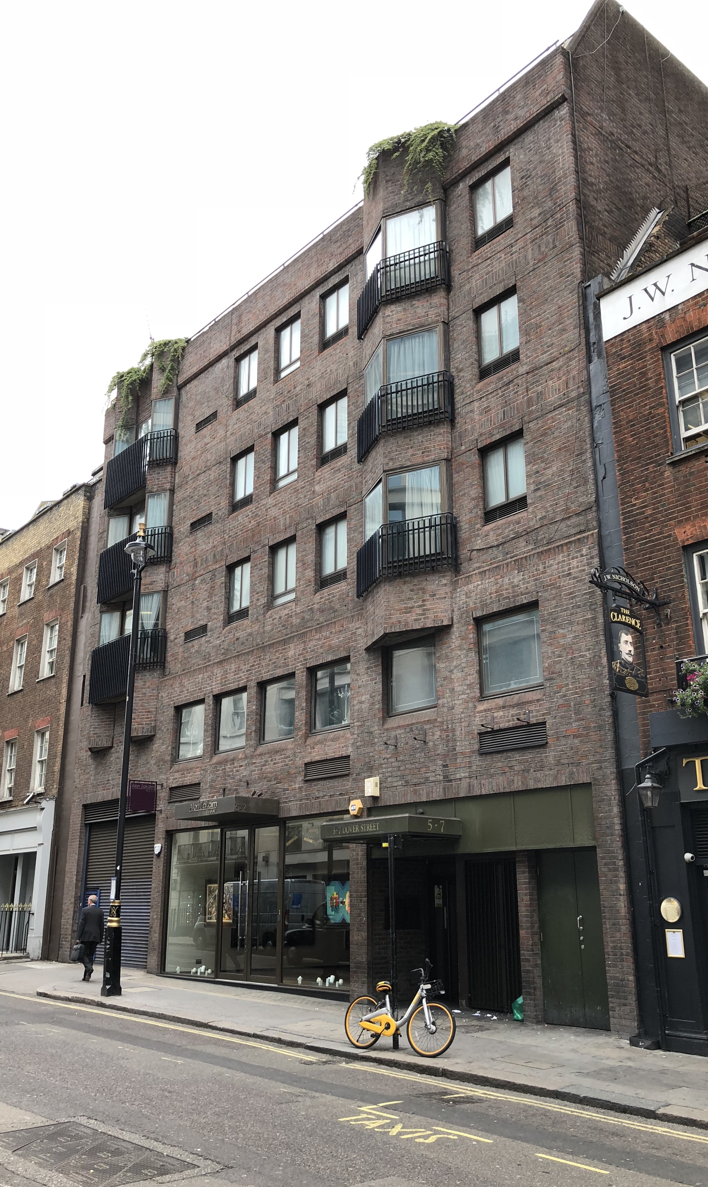 5-7 Dover Street, London. Site of entrance original entrance building to Dover Street Underground station (now Green Park station). Original building designed by Leslie Green was demolished in 1960s. Remains of the tiled facade flank the current building on both sides. An electrical sub-station for the Victoria line is contained in the basement.